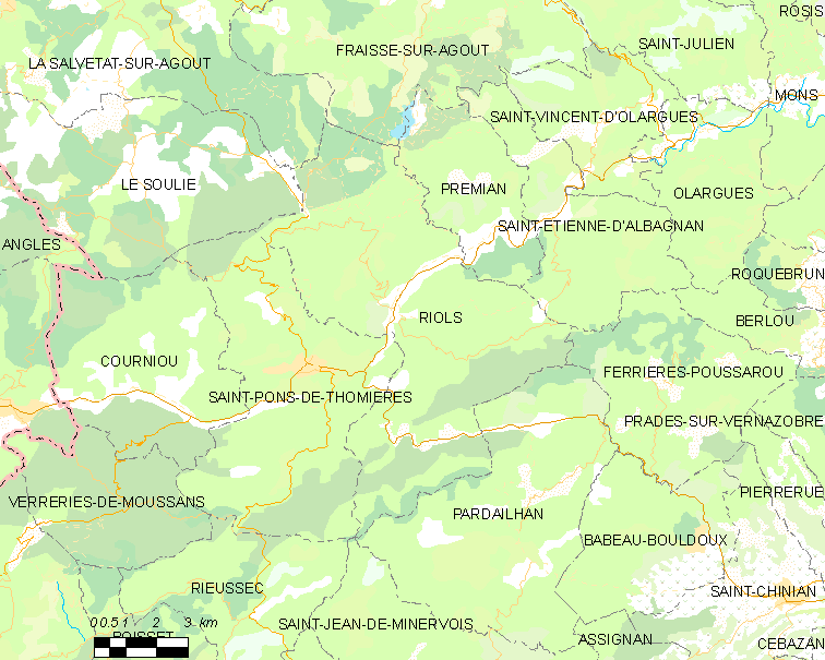 Map commune FR insee code 34229.png - Riols